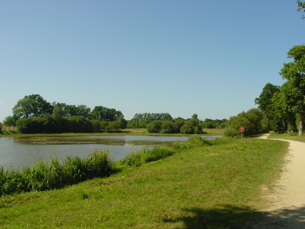 Etang du blavon